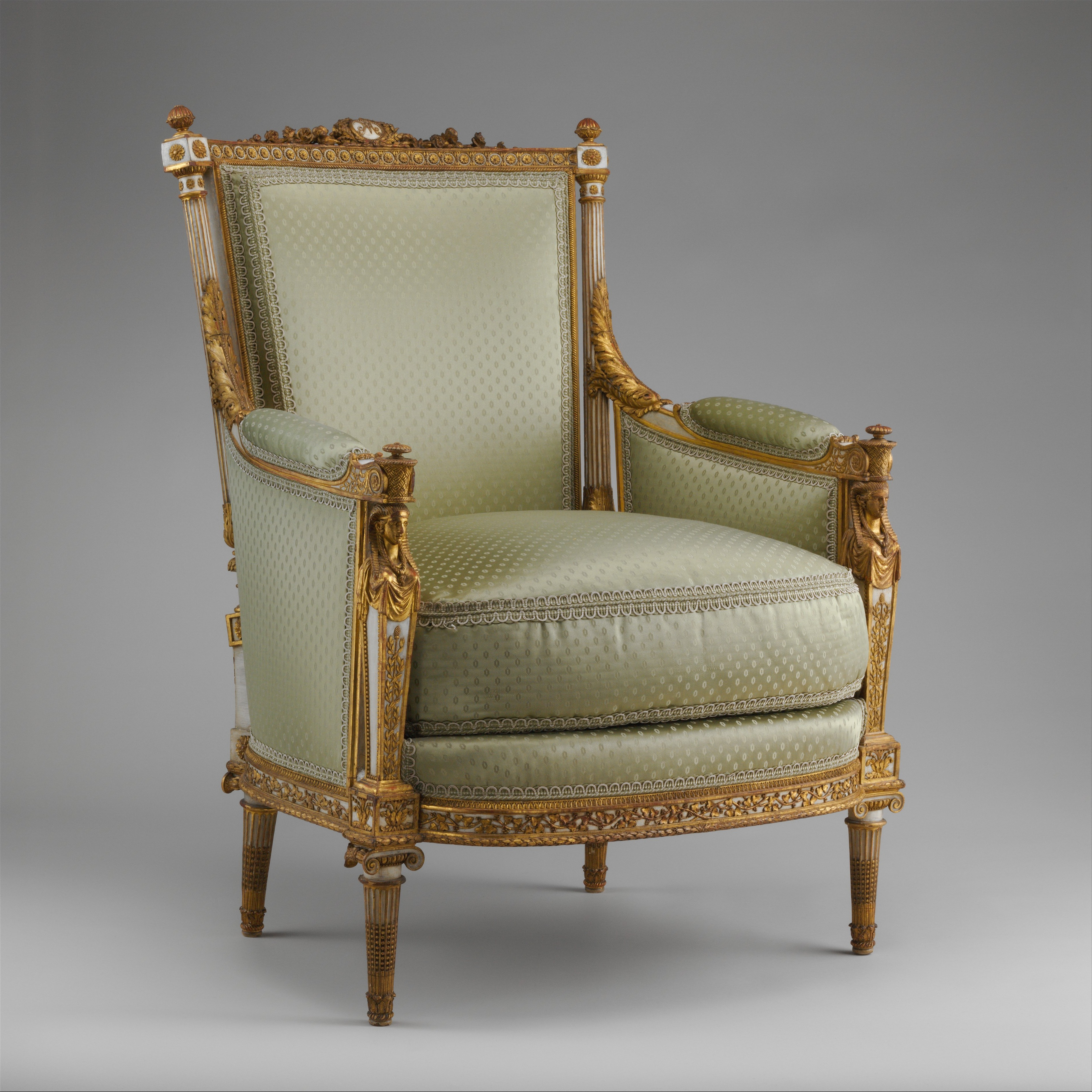 French, Paris; Armchair; Woodwork-Furniture